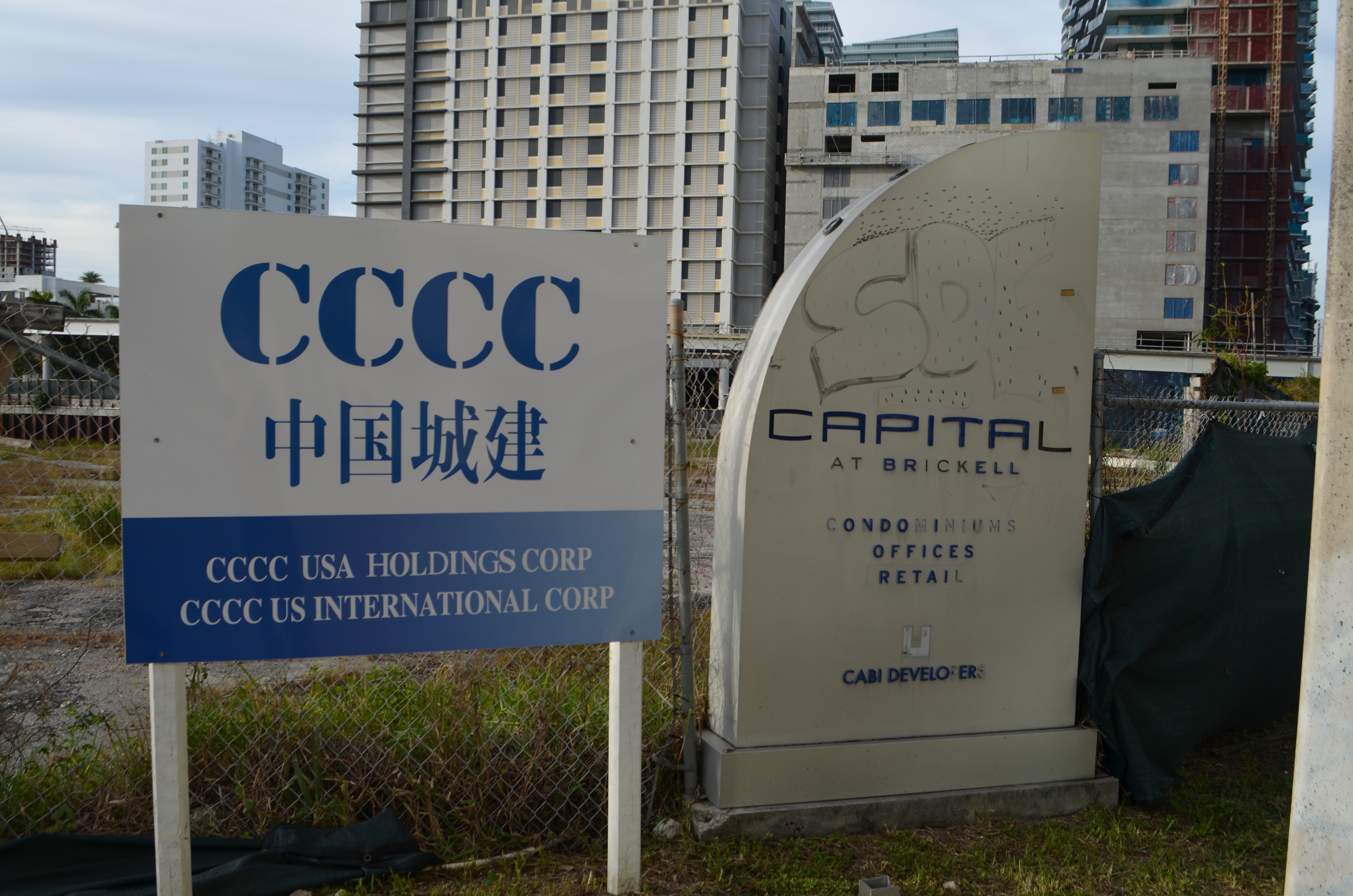 CCCC Towers and Capital at Brickell signs in 2016.